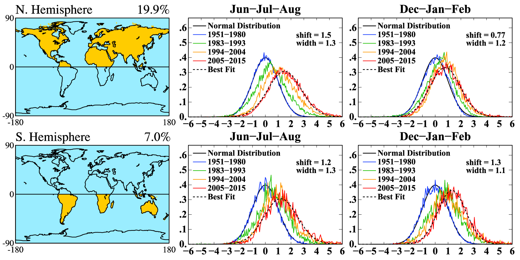 Frequency of occurrence of local temperature anomalies (relative to 1951–1980 mean) divided by local standard deviation (horizontal axis) for land areas shown on map. Area under each curve is unity. Numbers above the maps are percent of the globe covered by the selected region. 'Shift' and 'width' refer to the dashed curve fit to 2005–2015 data and are relative to the 1951–1980 base period